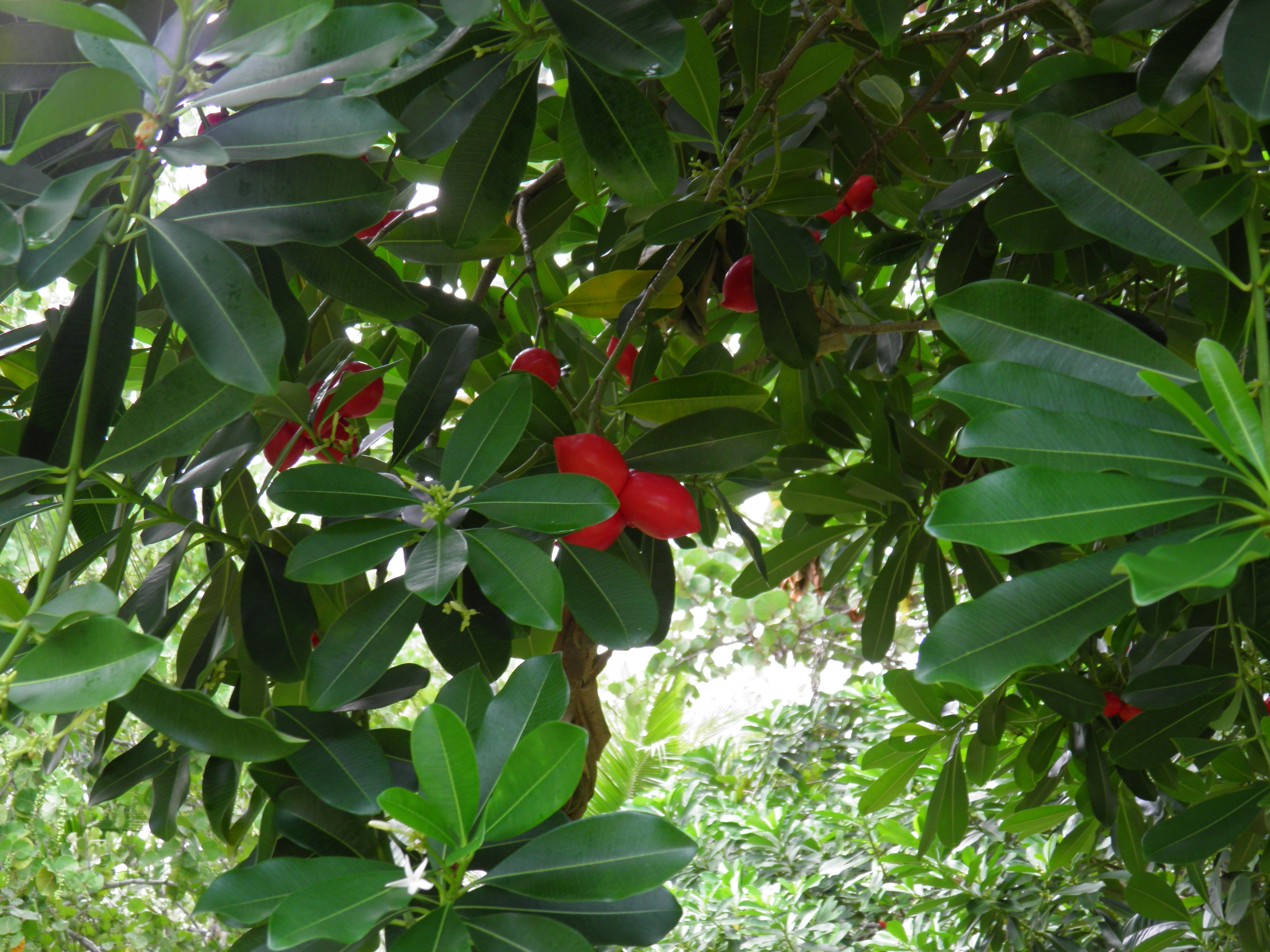 An Ochrosia elliptica tree growing on New Providence Island in the Bahamas